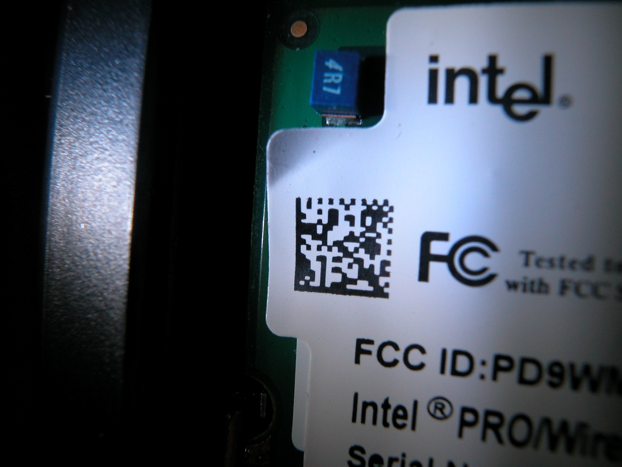 Datamatrix on an Intel Wireless Mini PCI card, containing the text: 15C06E115AZC72983004